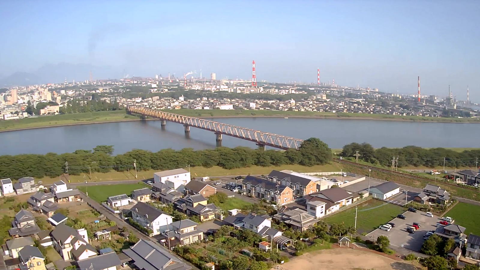 Nippo Main Line Onogawa Bridge